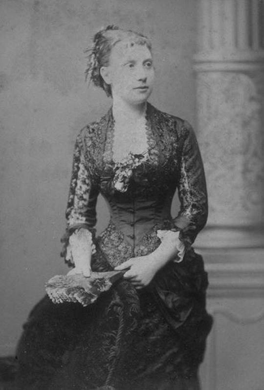 Isabella of Bavaria, Duchess of Genoa